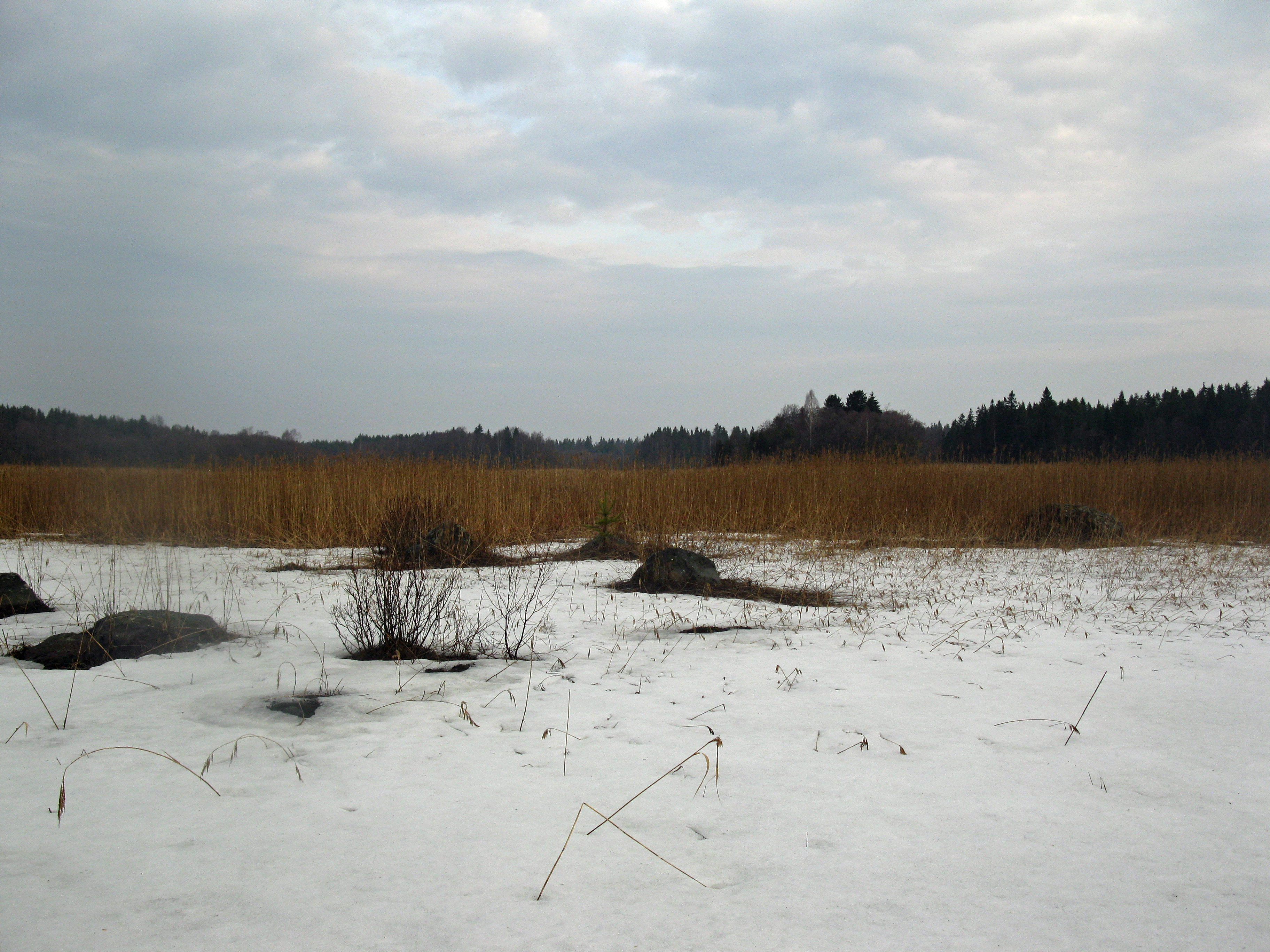 Mustalahti, Ahlainen, Pori, Finland, 6.4.2016.